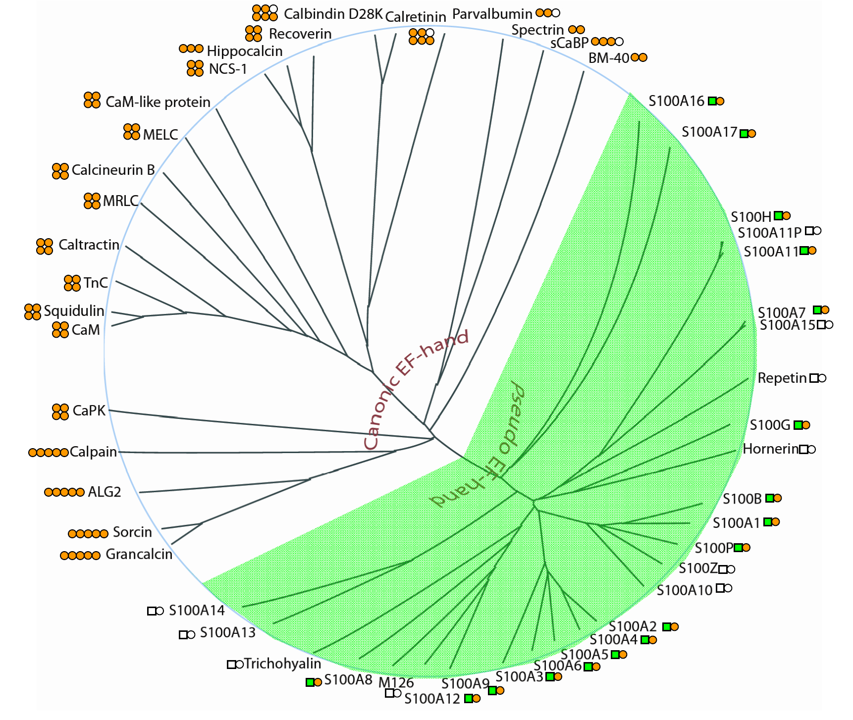 Phylogenetic analysis of the EF-hand protein family. The unrooted N-J tree was generated on the basis of multiple sequence alignments of 27 typical proteins containing pseudo EF-hand motifs and 22 proteins with canonical EF hand motifs. (Circle: canonical EF-hand. Square: pseudo EF-hand. Solid: bind Ca2+. Open: do not bind Ca2+ or Ca2+ binding capability is unknown).